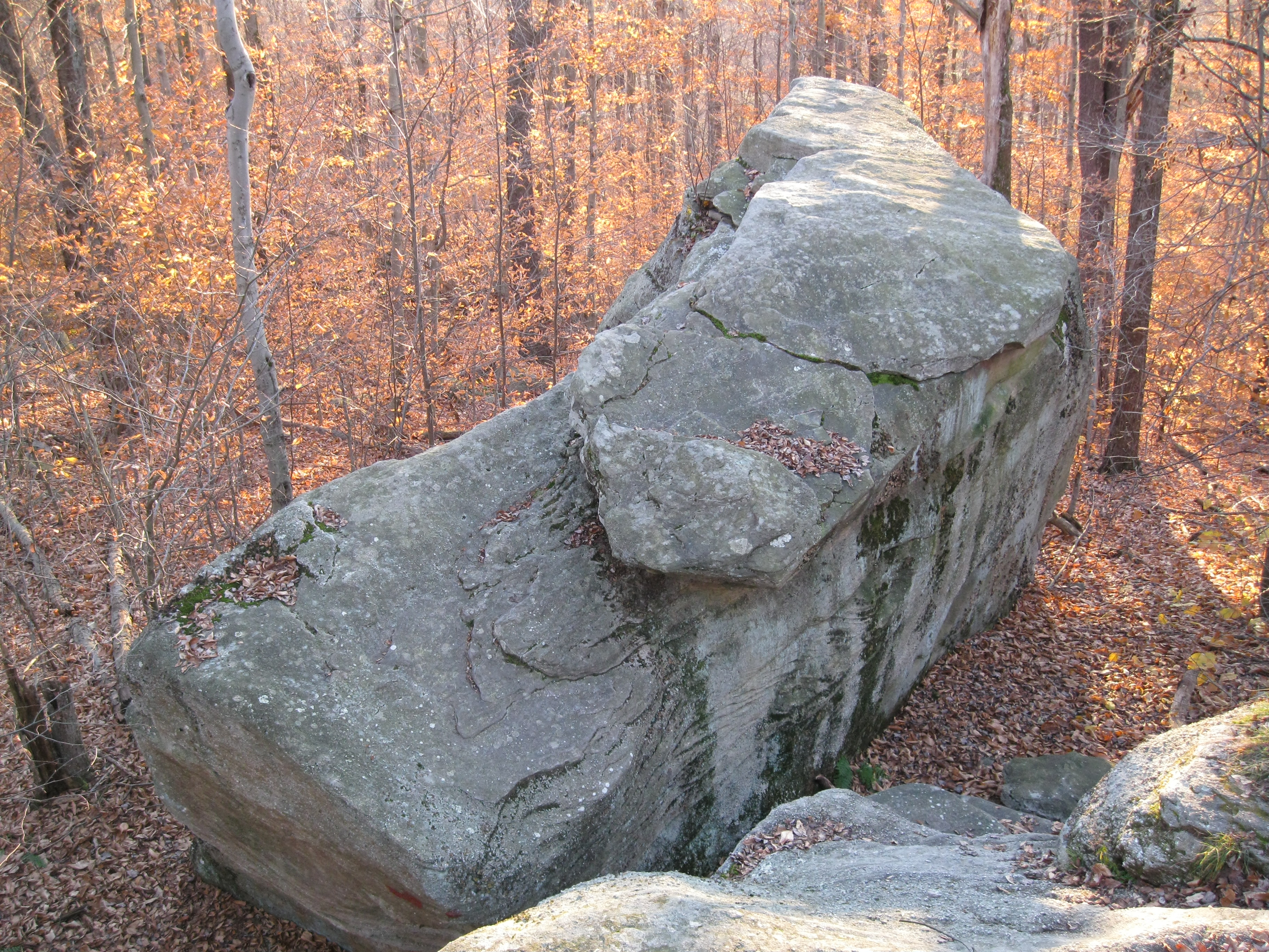 Giant Pottsville Formation conglomerate boulder split off from the main formation in the Rock Garden formation in Worlds End State Park, near Forksville, Sullivan County, Pennsylvania, USA.